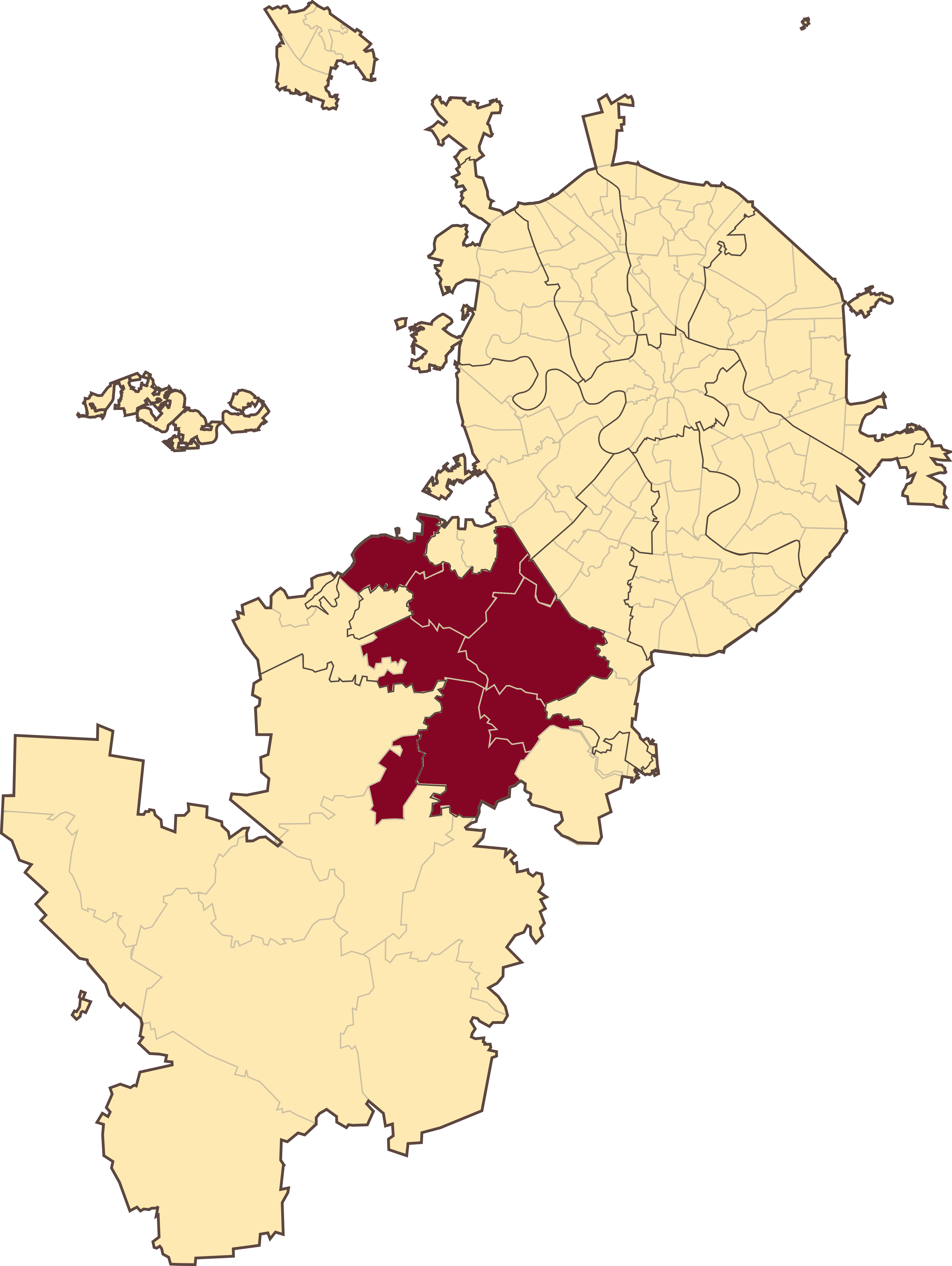 Map of Il'inskoe Blagochinie of Moscow